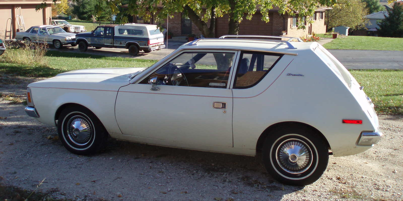 1972 AMC Gremlin Photo taken: 2007-11-01